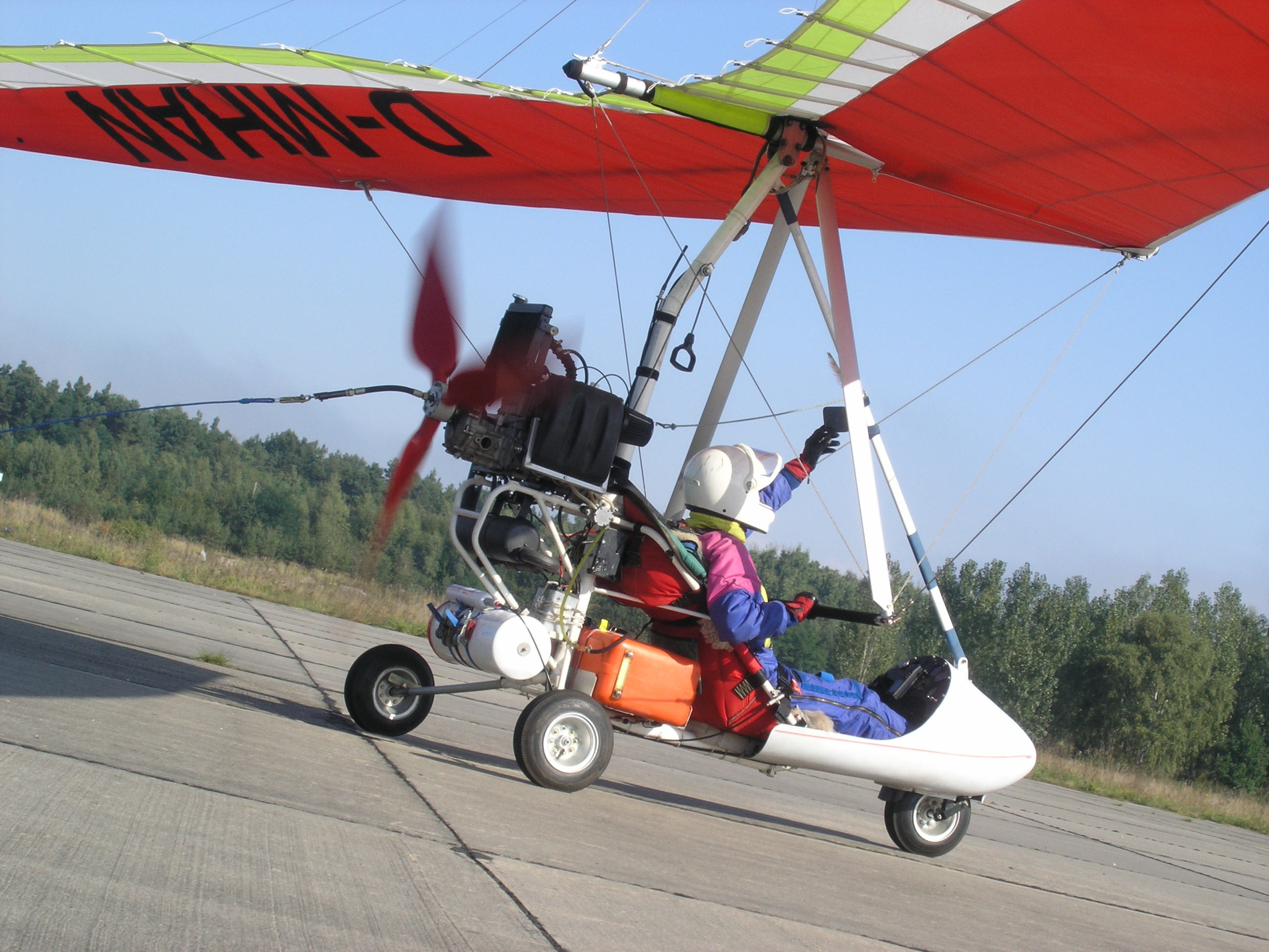 A hang glider trike on a runway, accelerating to do an UL tow. Date: august 2005 Place: Altes Lager, Germany Pilot: Peter Schühle Trike: ASO Viper 582 Photographer: Kai-Martin Knaak Copyright under GFDL granted by Kai-Martin Knaak (Wiki Commons category: "Air sports")